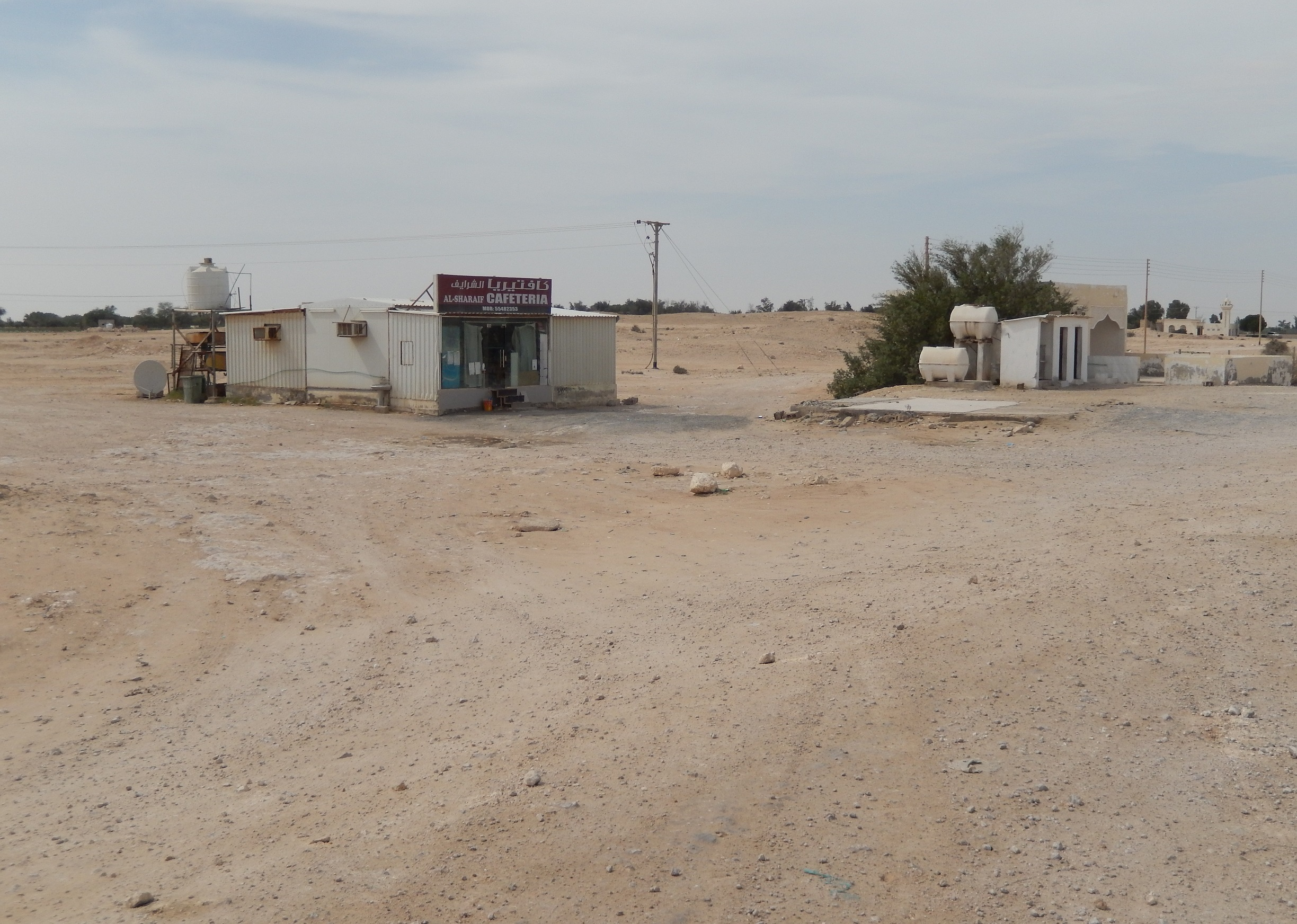 Roadside cafeteria, about 4 km south of Al Utouriya, a village in central Qatar.(There are many different ways of spelling Al Utouriya; one also encounters Al `Aţūrīyah, Al Athārīyah, A-uriyah (on Google Maps) or Al Otouriyah.)